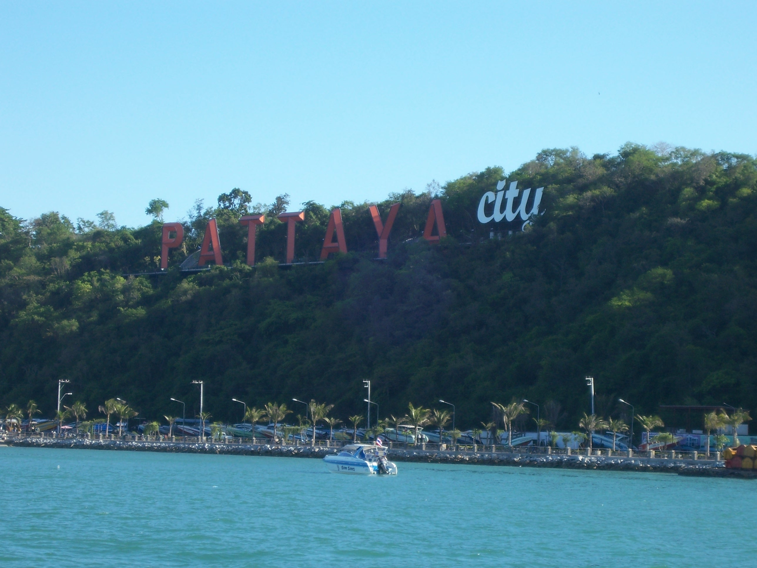 Pattaya City Sign